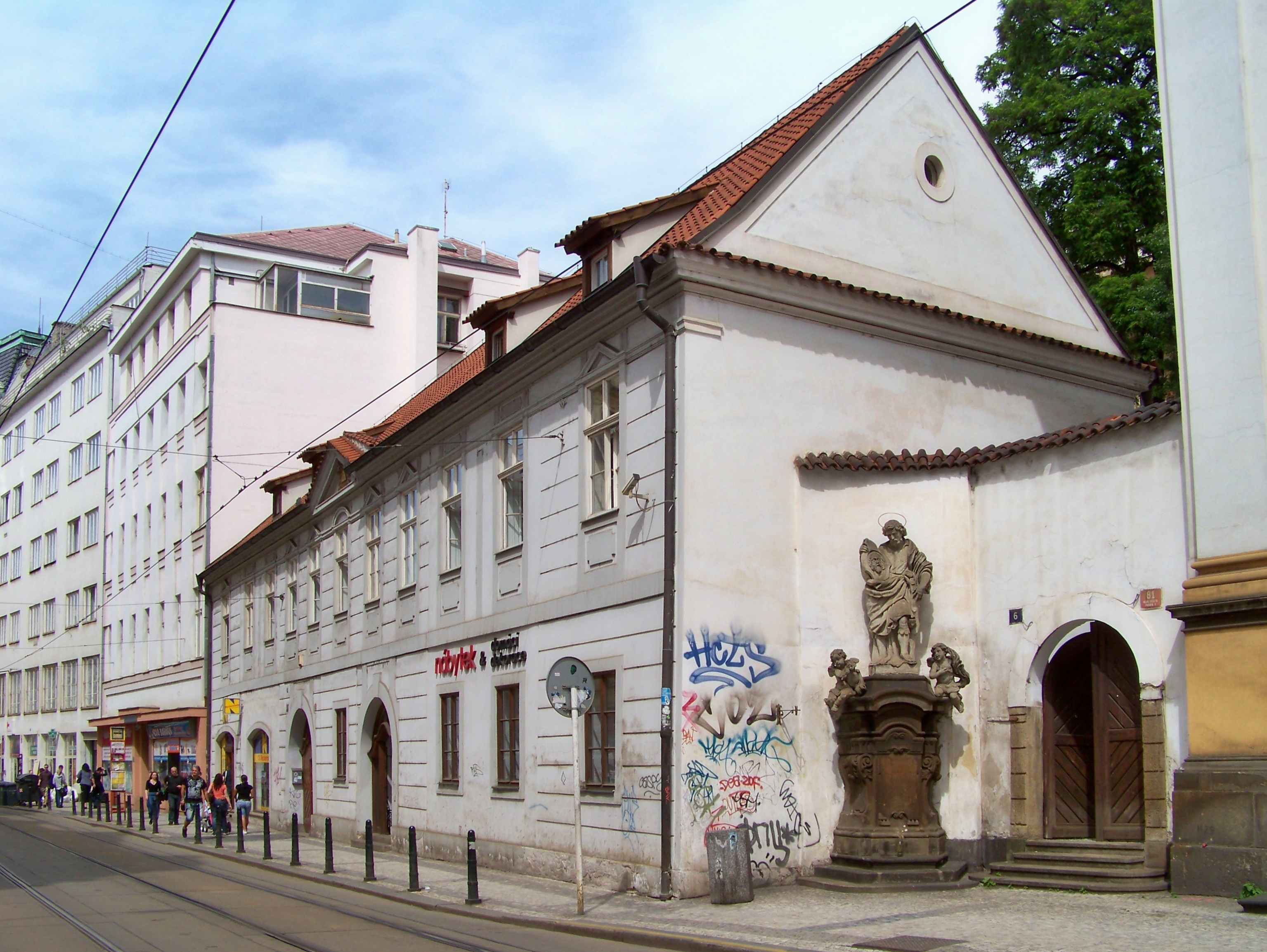 New Town, Prague, the Czech Republic. Spálená street, a rectory No 80/8.